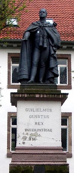 Göttingen (Germany), Wihelmsplatz: Monument to William IV, King of the United Kingdom of Great Britain and Ireland, and King of Hanover